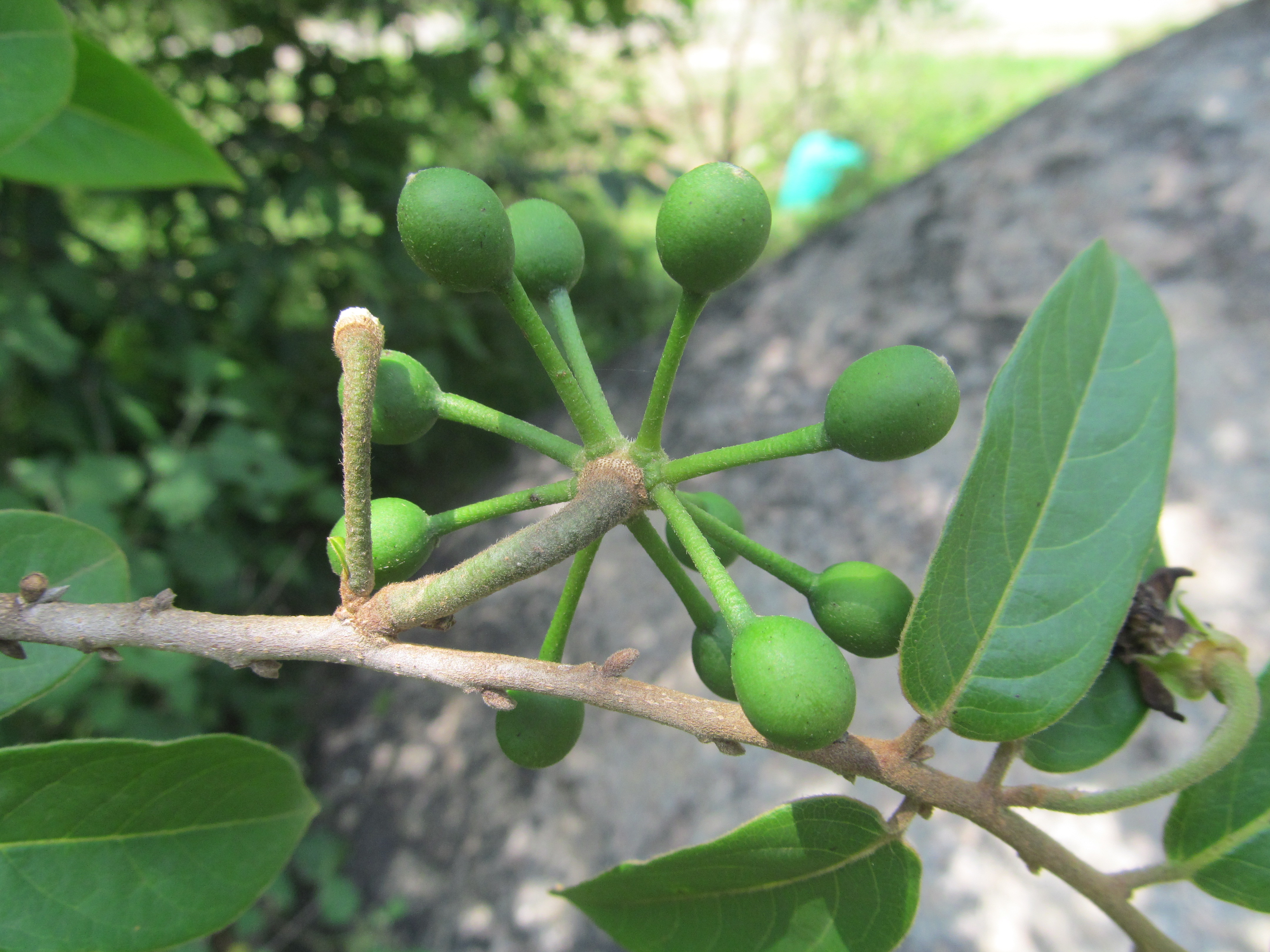 Polyalthia cerasoides_fruit bunch